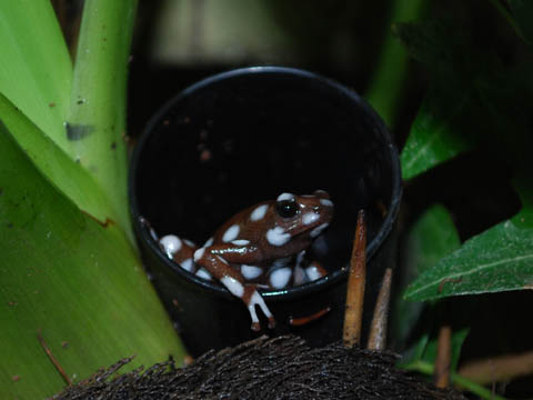 Excidobatesmysteriosusbigegallery2.jpg